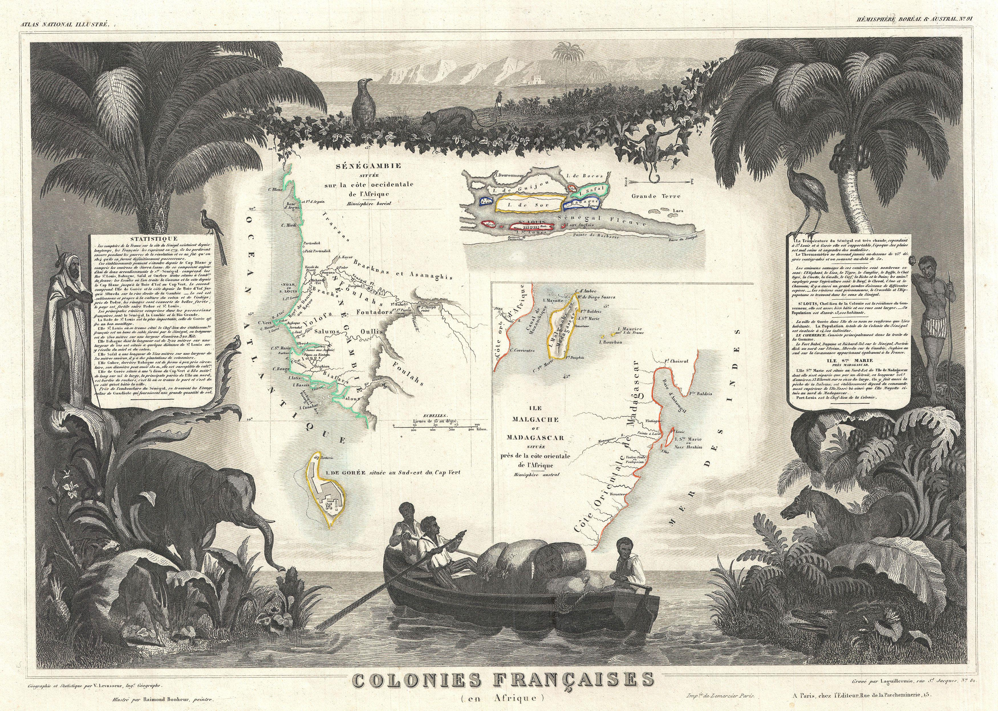 This is a fascinating 1852 Levasseur map of the French Colonies in Africa. The map area is divided into three sections dedicated to Senegambie (Senegambia), Madagascar, and the Senegal River. The largest of these focuses on Senegambia with an inset of the Island of Goree in the lower left. The map proper is surrounded by elaborate decorative engravings designed to illustrate both the natural beauty and trade richness of the land. There is a short textual history of the region depicted to the left and right of the map. Published by V. Levasseur in the 1852 edition of his Atlas National de la France Illustree.